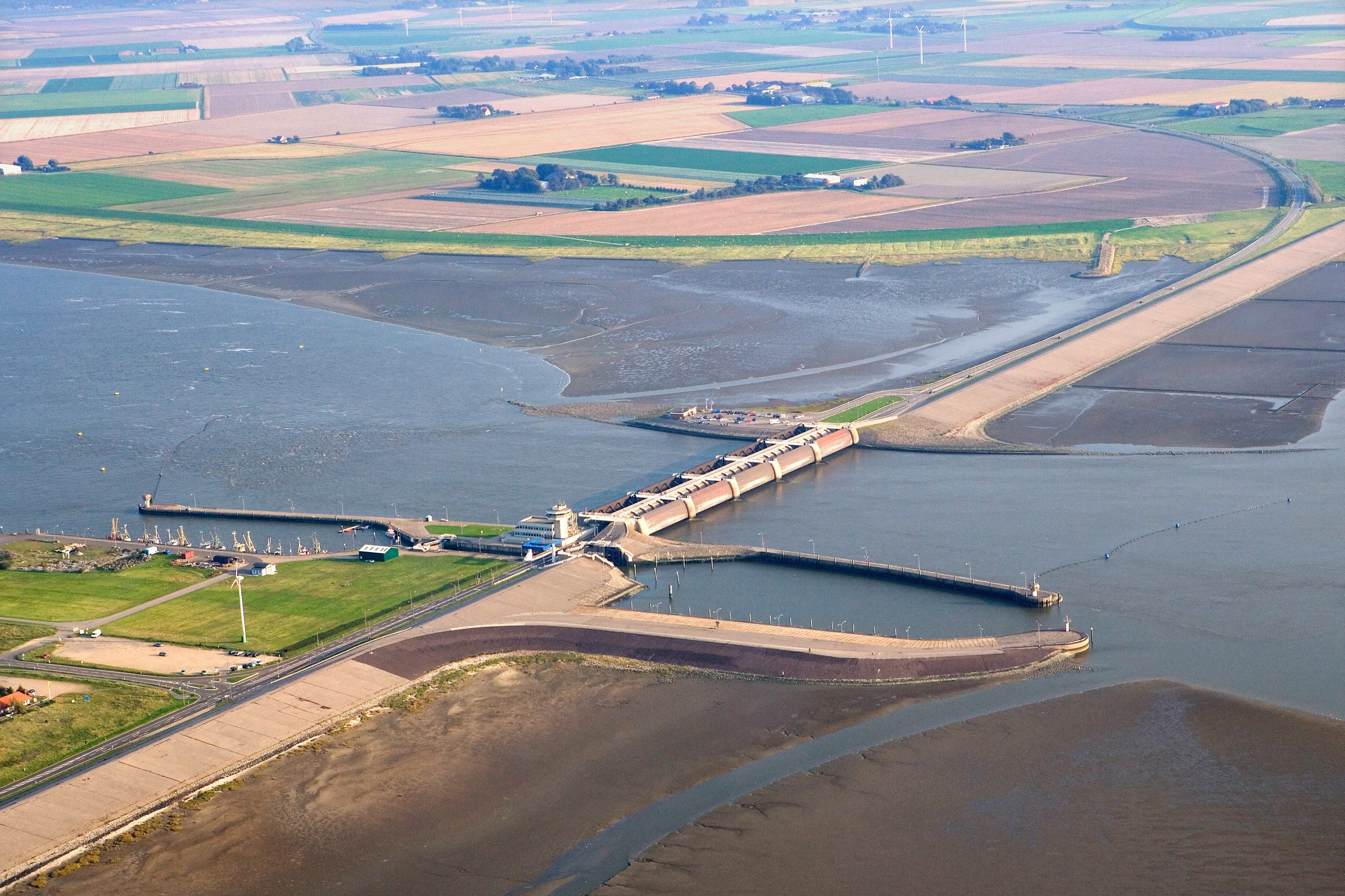 Landward aerial view of the storm tide barrage at the Eider river.